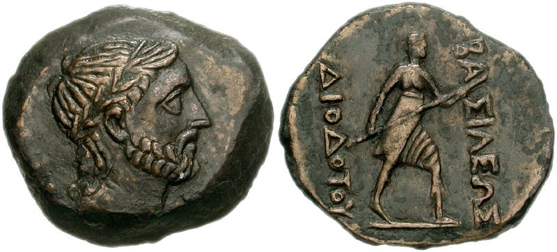 Diodotos II coin. Circa 235-225 BC. Æ Unit (22mm, 7.84 g). Aï Khanoum mint. Diademed head of Zeus right / Artemis advancing right, holding torch.